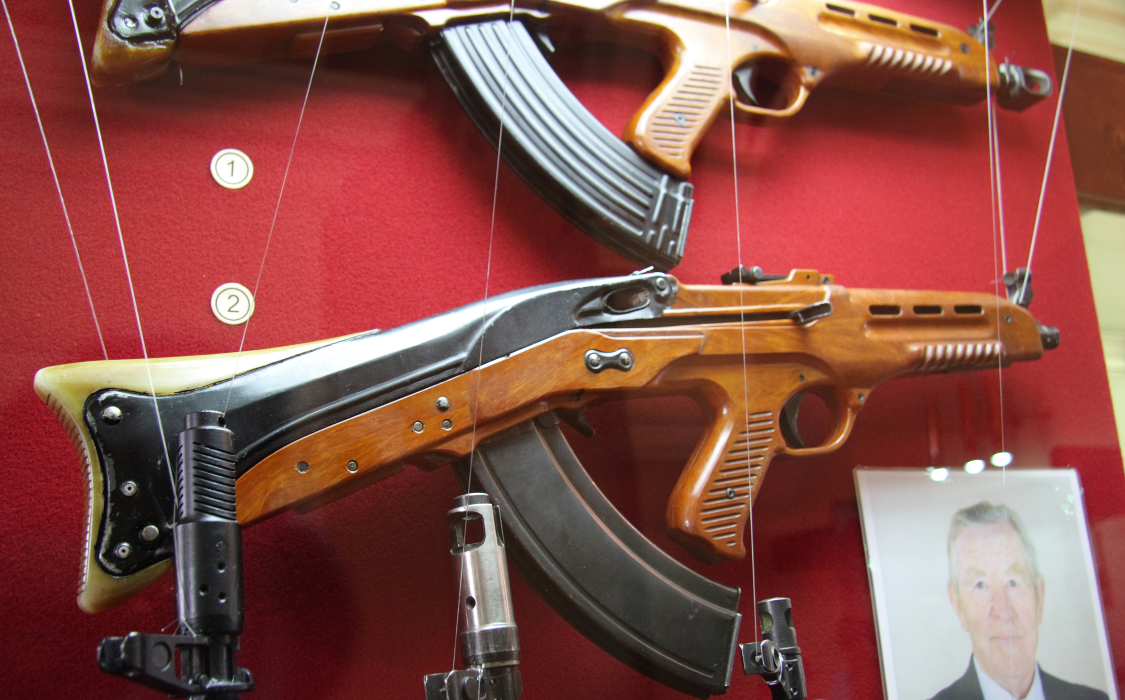 TKB-011 rifle 1963 mod in Tula State Arms museum